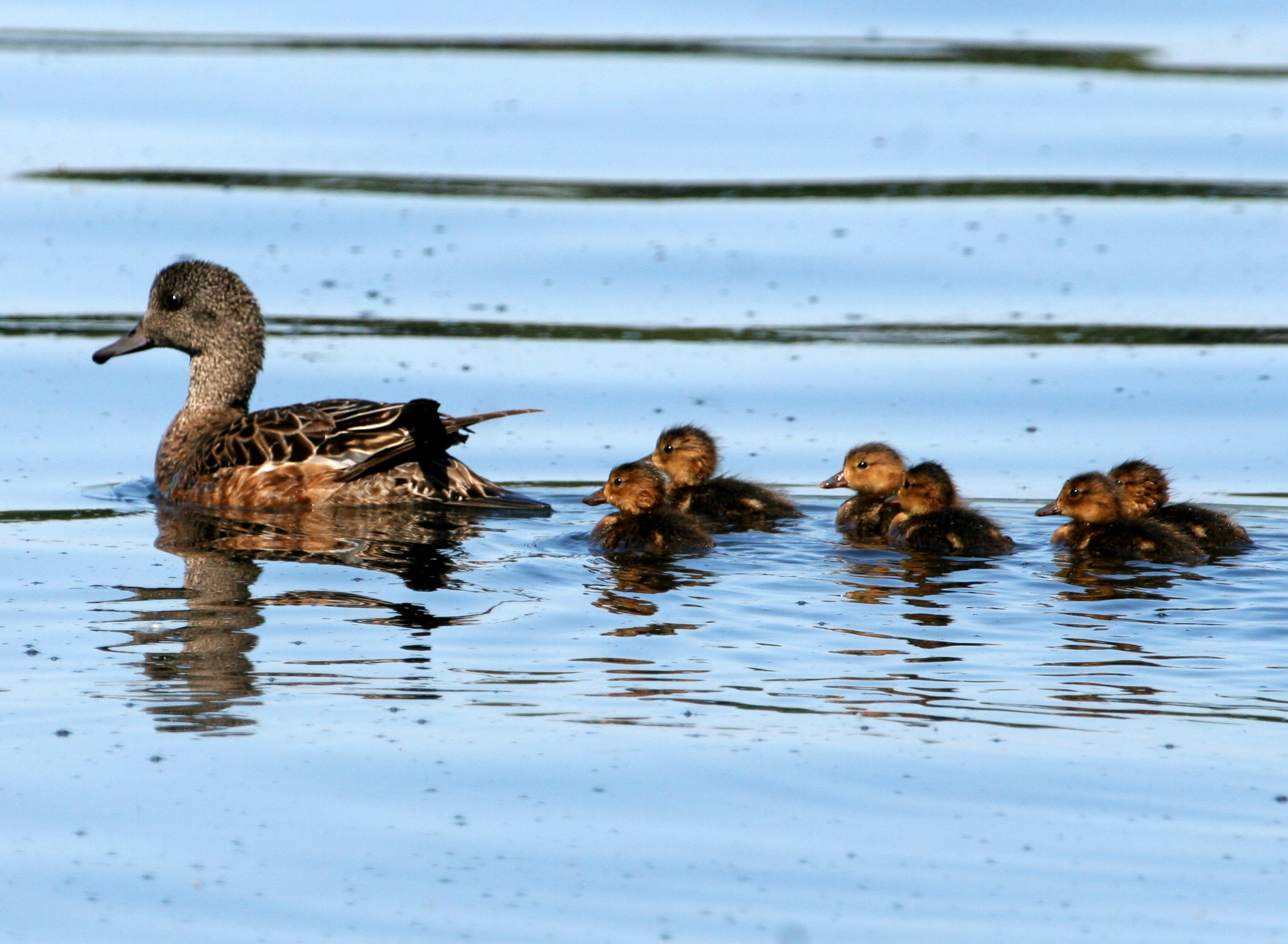 American Wigeon Brood